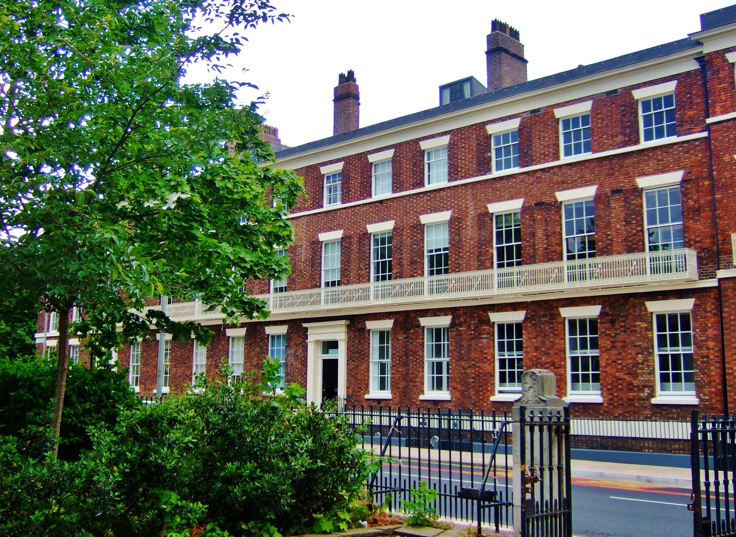 Looking towards Liverpool University School of Architecture from Abercromby Square Gardens